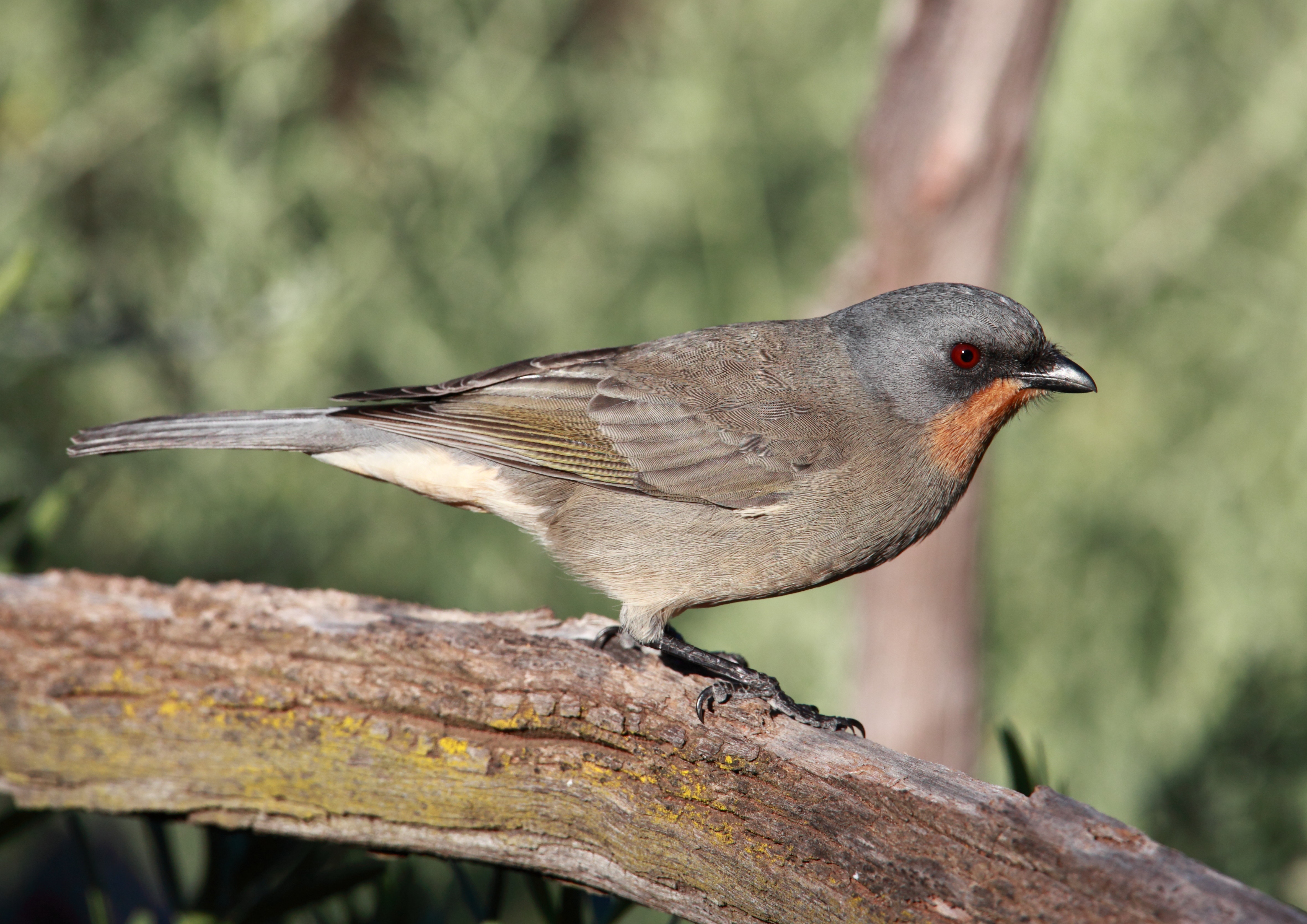 At last, I got him! I was sitting taking shots of the usual White-plumed and Singing HE and this wonderful looking fellow turned up. I was so excited I almost forgot to press the shutter; I got three shots in the couple of seconds the bird was there. For those who don't know, this bird is uncommon to rare and very difficult to see in the open.